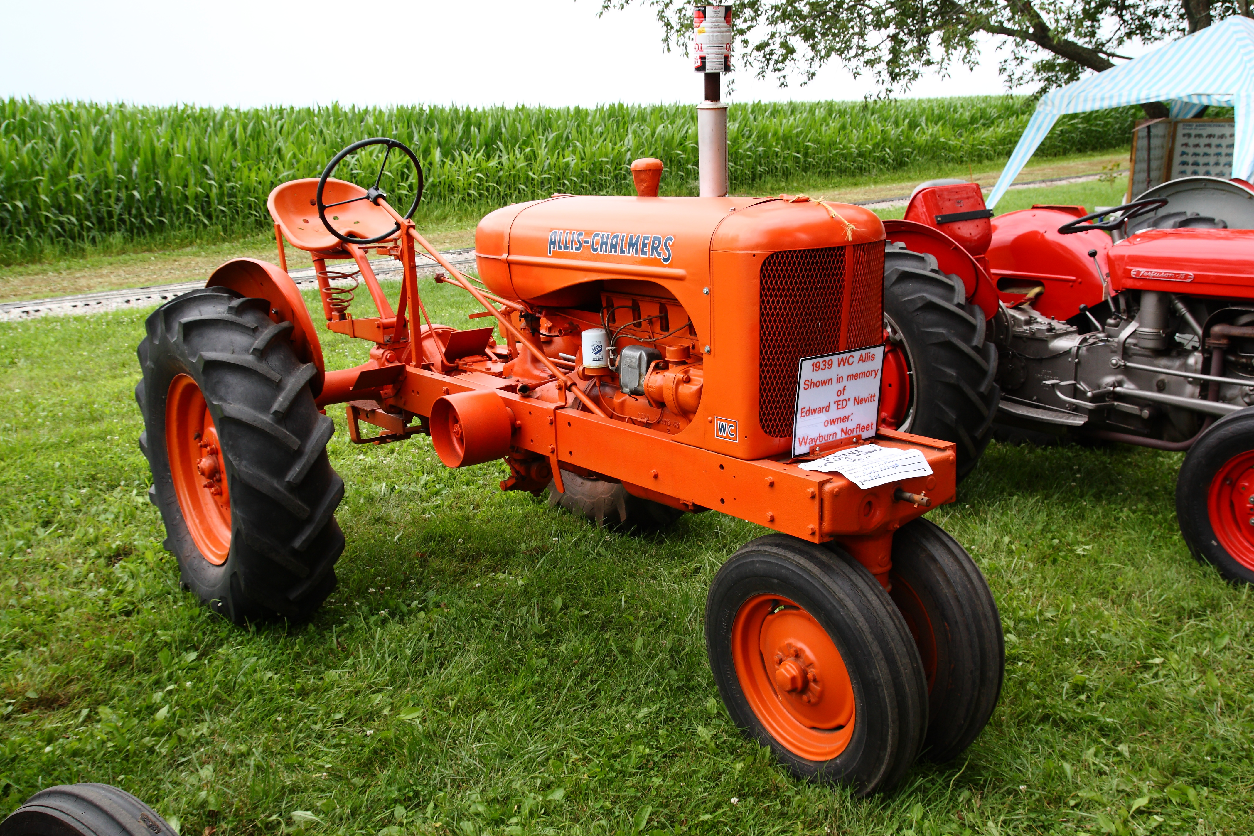 Allis-Chalmers WC 1939 - My brother had a WD and really liked it.